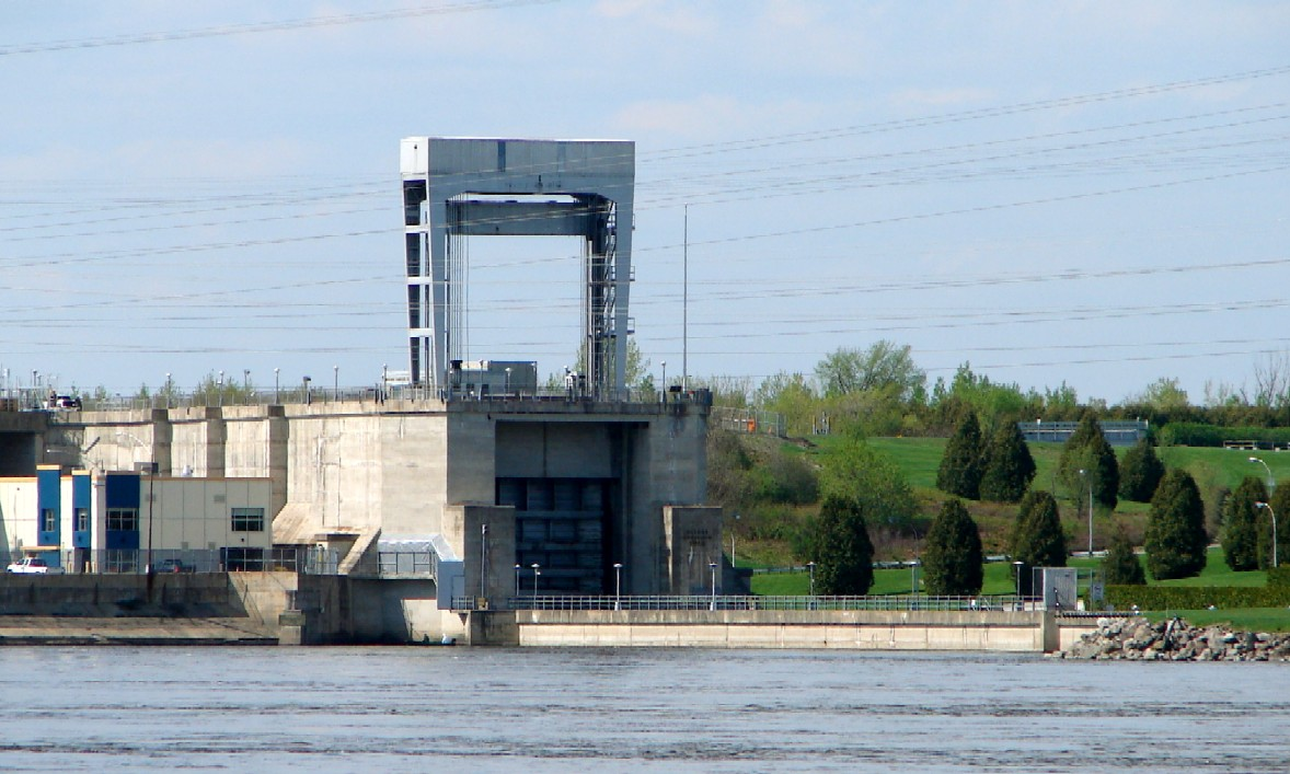 Boat lock on the Carillon Canal, National Historic Site of Canada, Saint-André-d'Argenteuil, Quebec, Canada